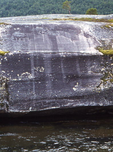 Gravure rupestre en Norvège